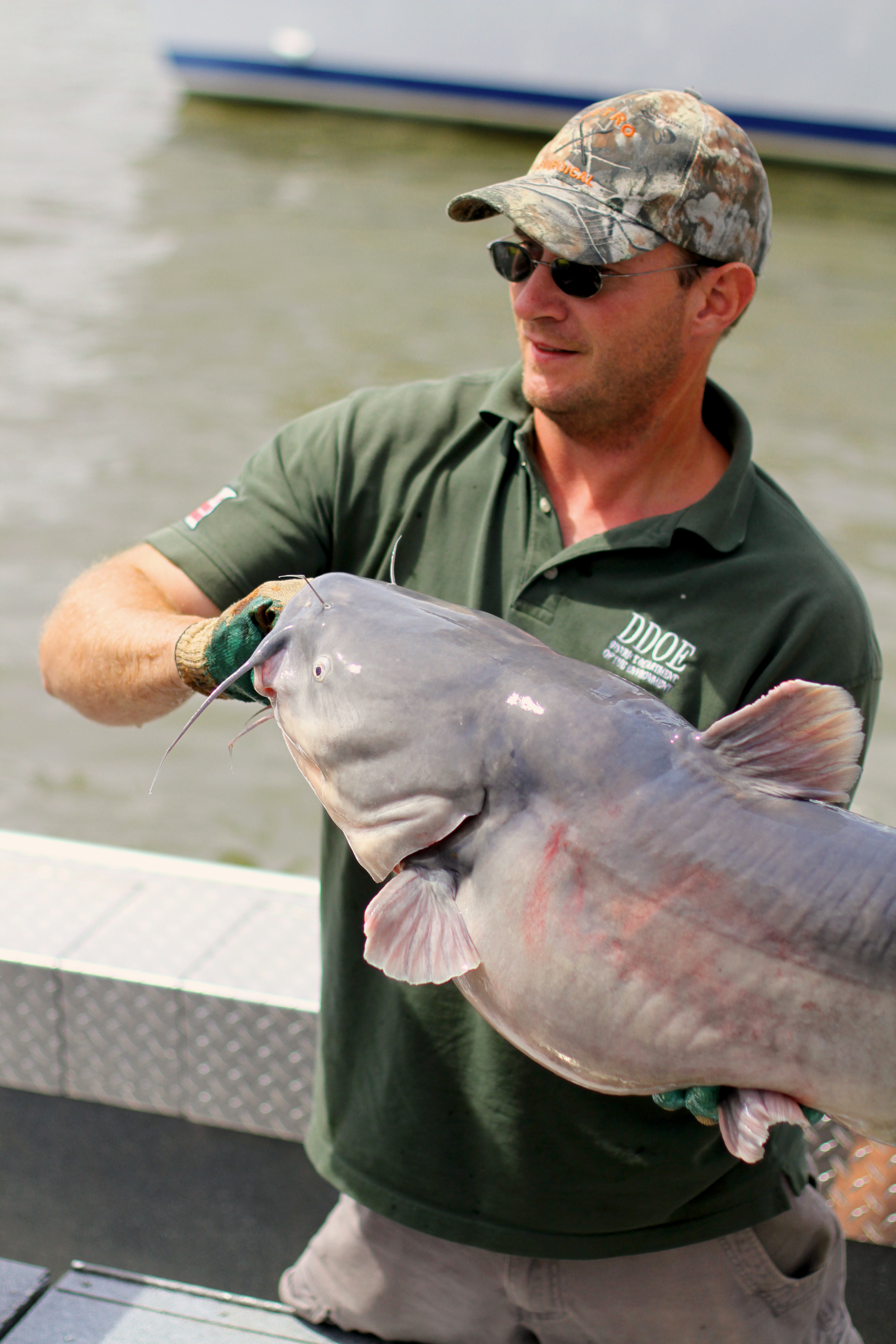 A Blue Catfish